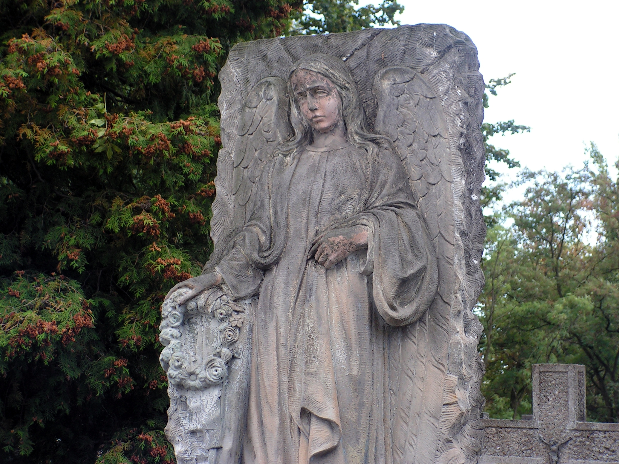 Figure of angel from Kryński and Byszewski family grave on Communal Cemetery in Włocławek.